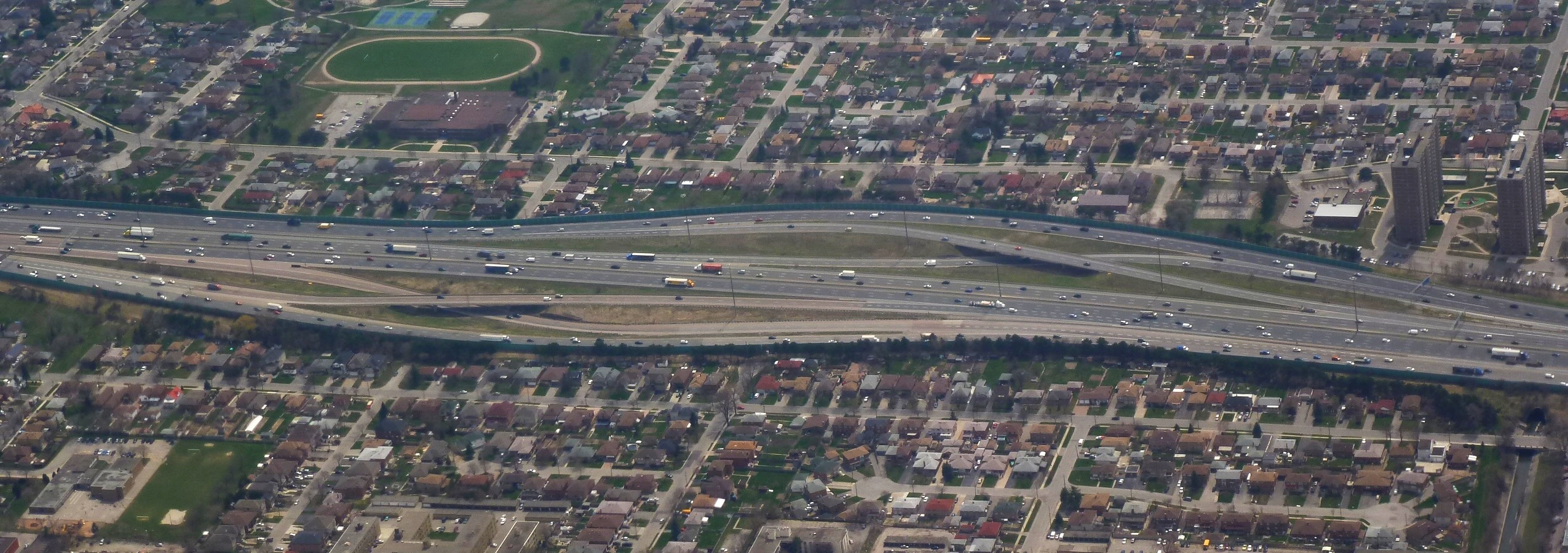 A view of "The Basketweave" on Ontario Highway 401 in Toronto, Ontario, Canada, looking south.